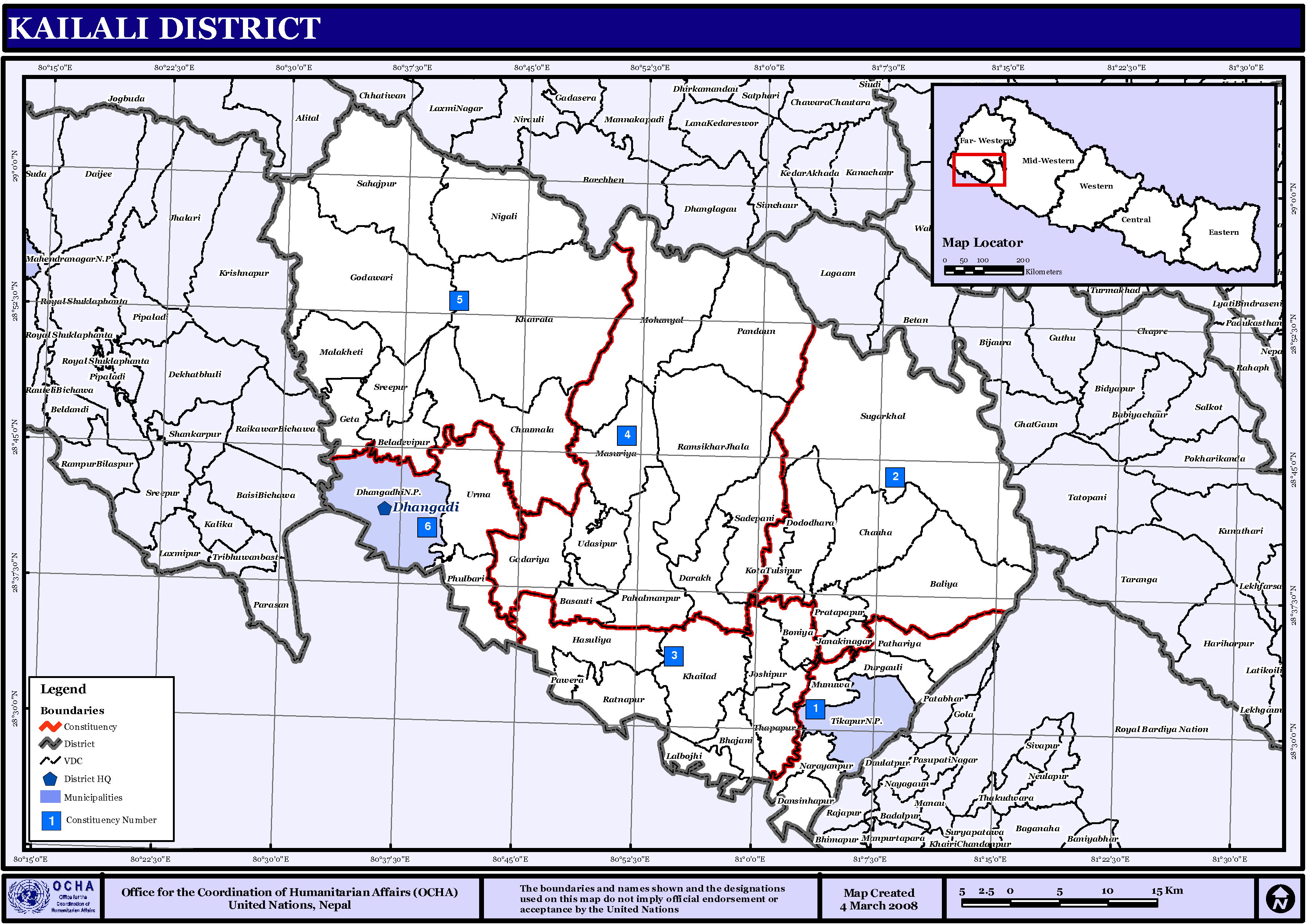 Map displaying Village Development Committees in Kailali District, Nepal